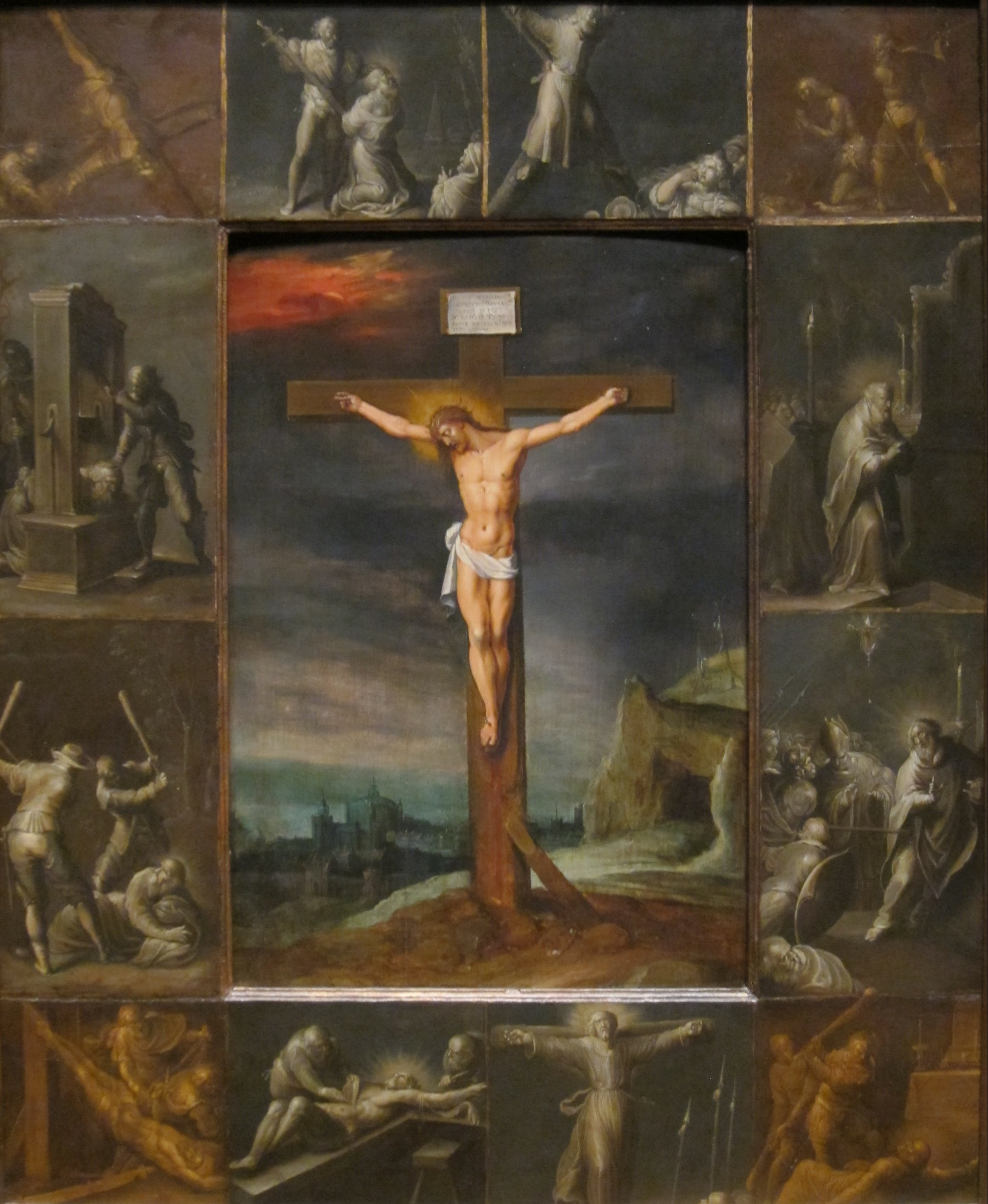 The Martyrs, clockwise from the upper left, are: Peter, Matthew, Andrew, James Major, John the Evangelist, Thomas, James Minor, Bartholomew, Simon, Mark, and Paul painted en grisaille and en brunaille.